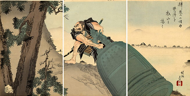 'The Giant Bell, Triptych. The print depicts Benkei carrying the giant bell of Miidera Temple up Hei-zan Mountain.